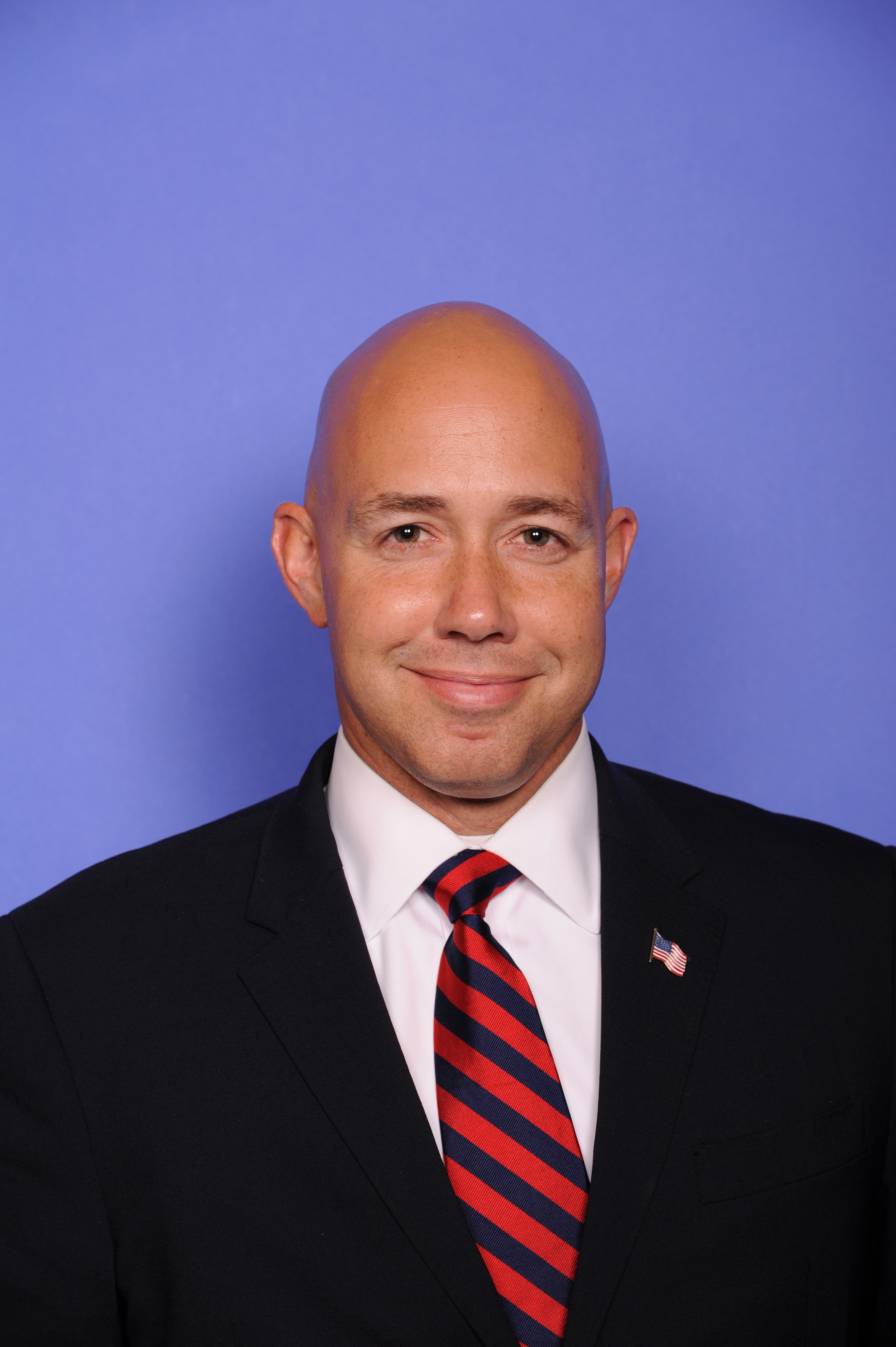 Brian Mast official photo, 115th Congress